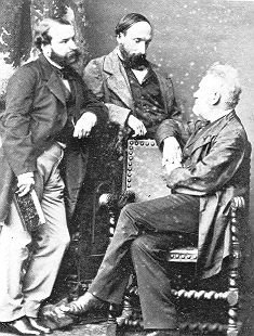 (Left to right:) François-Victor Hugo, Auguste Vacquerie and Victor Hugo. Photograph by Bertall (1820-1882).